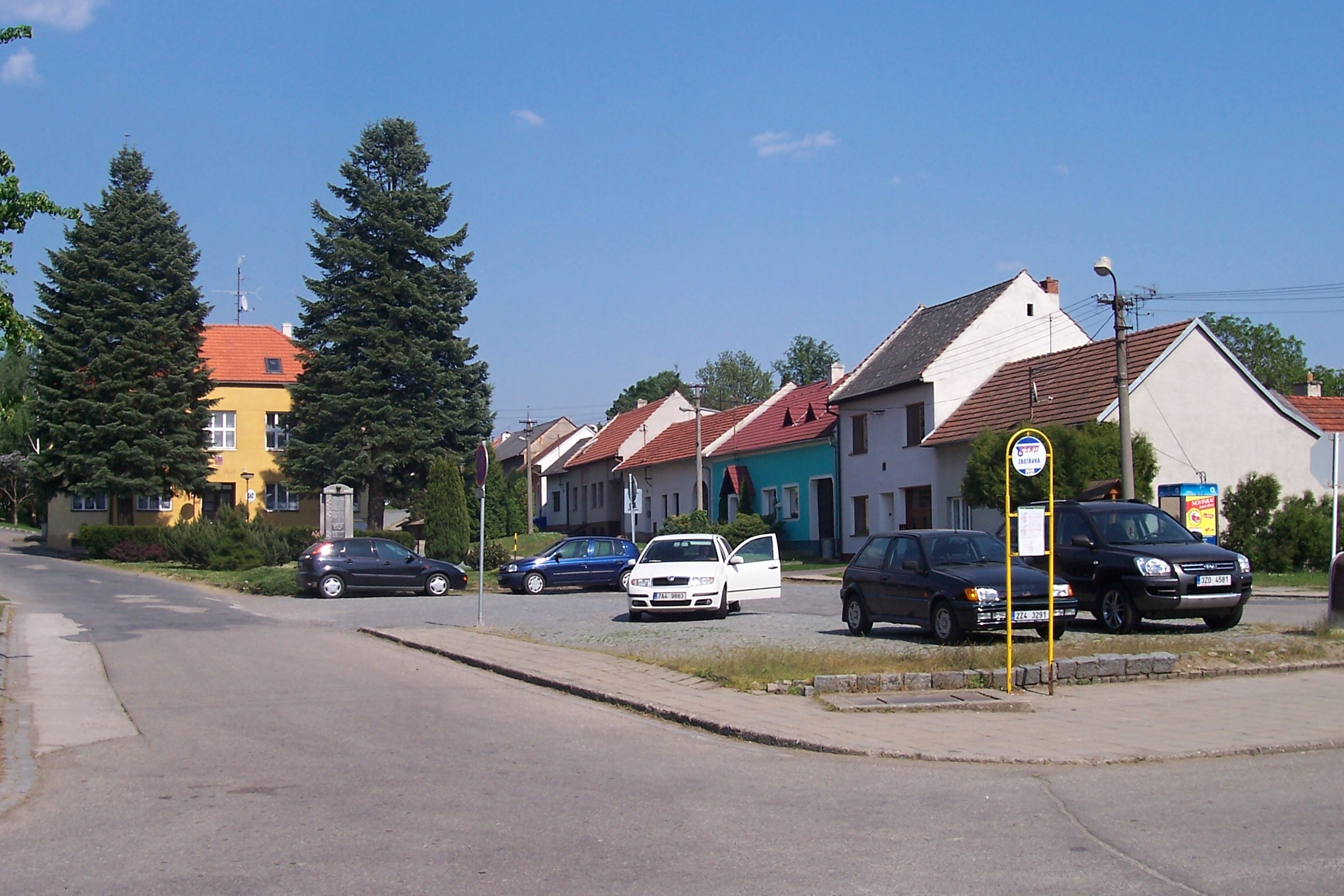 Topolná in Uherské Hradiště District, Czech Republic. Common.